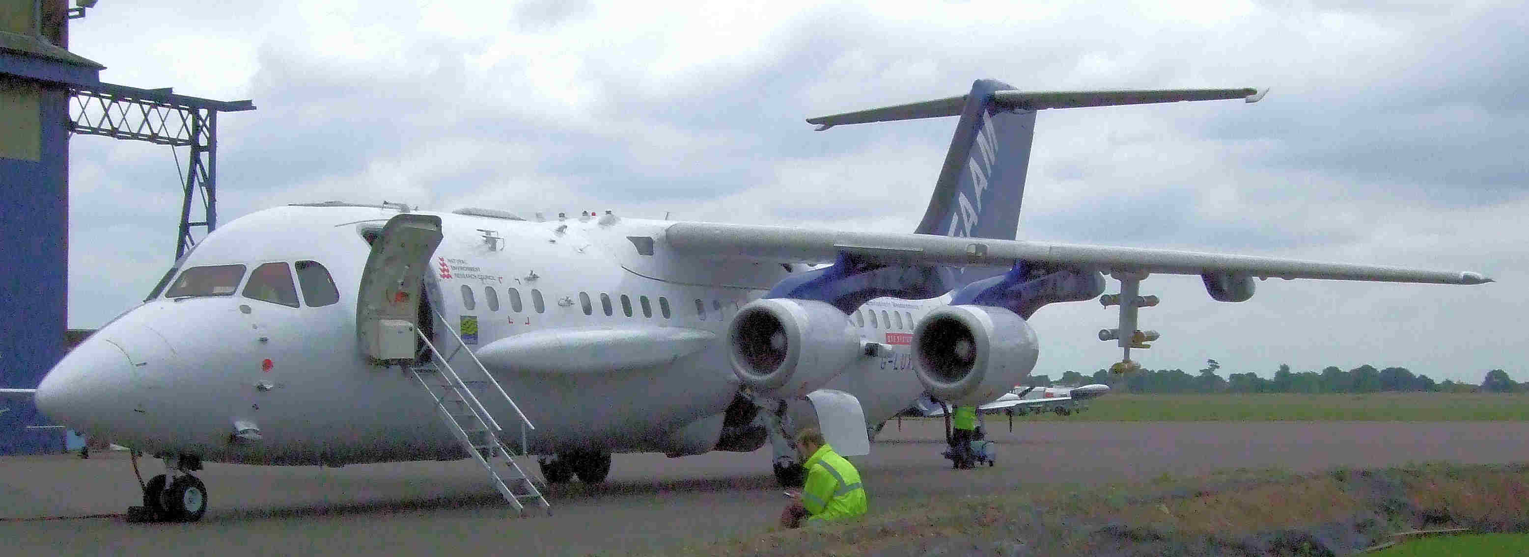 FAAM BAe 146 type 301 on Cranfield Airport Apron, 22 June 2009